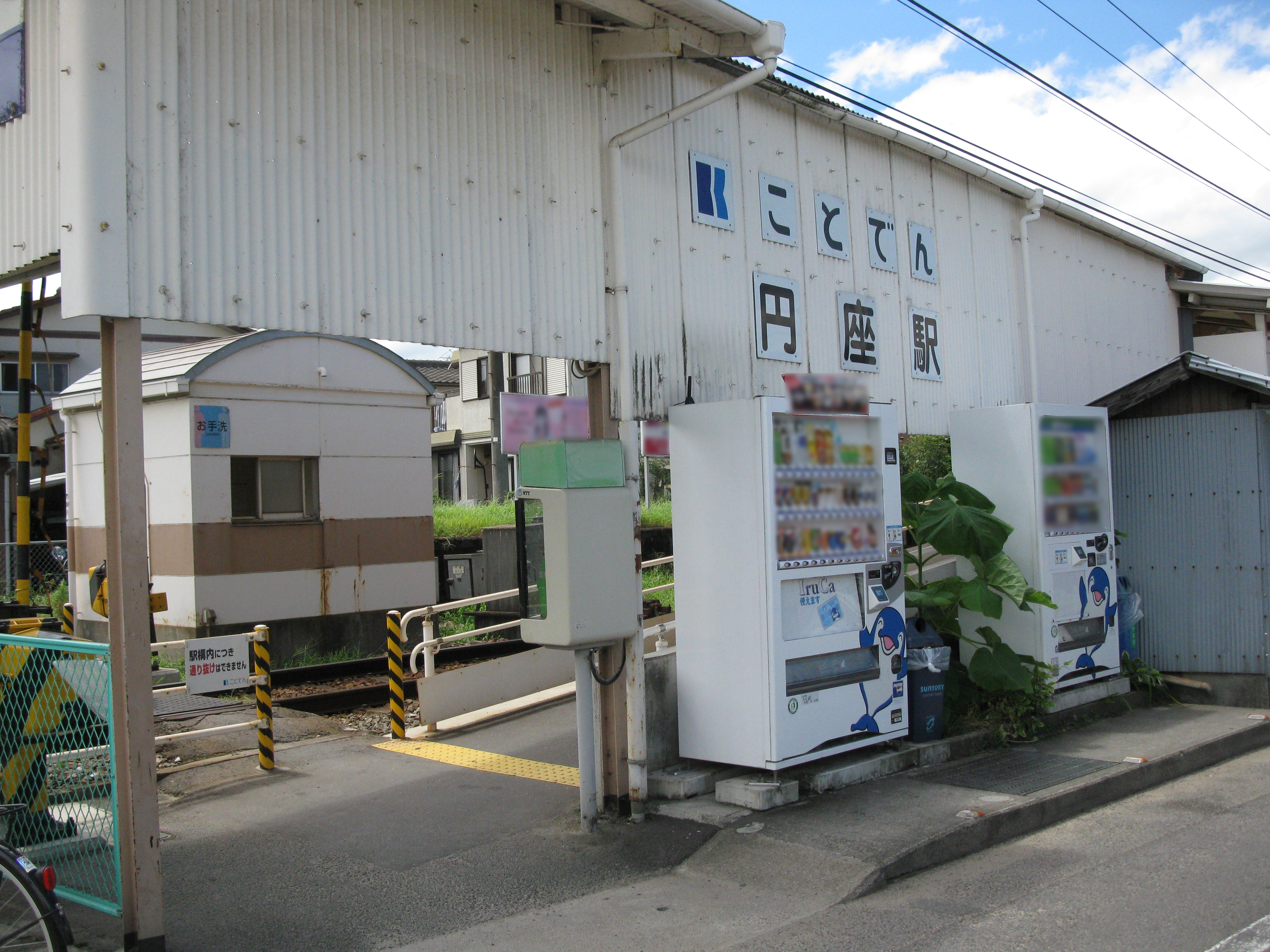 Enza Station entrance (Takamatsu-Kotohira Electric Railroad(Kotoden) Kotohira Line)